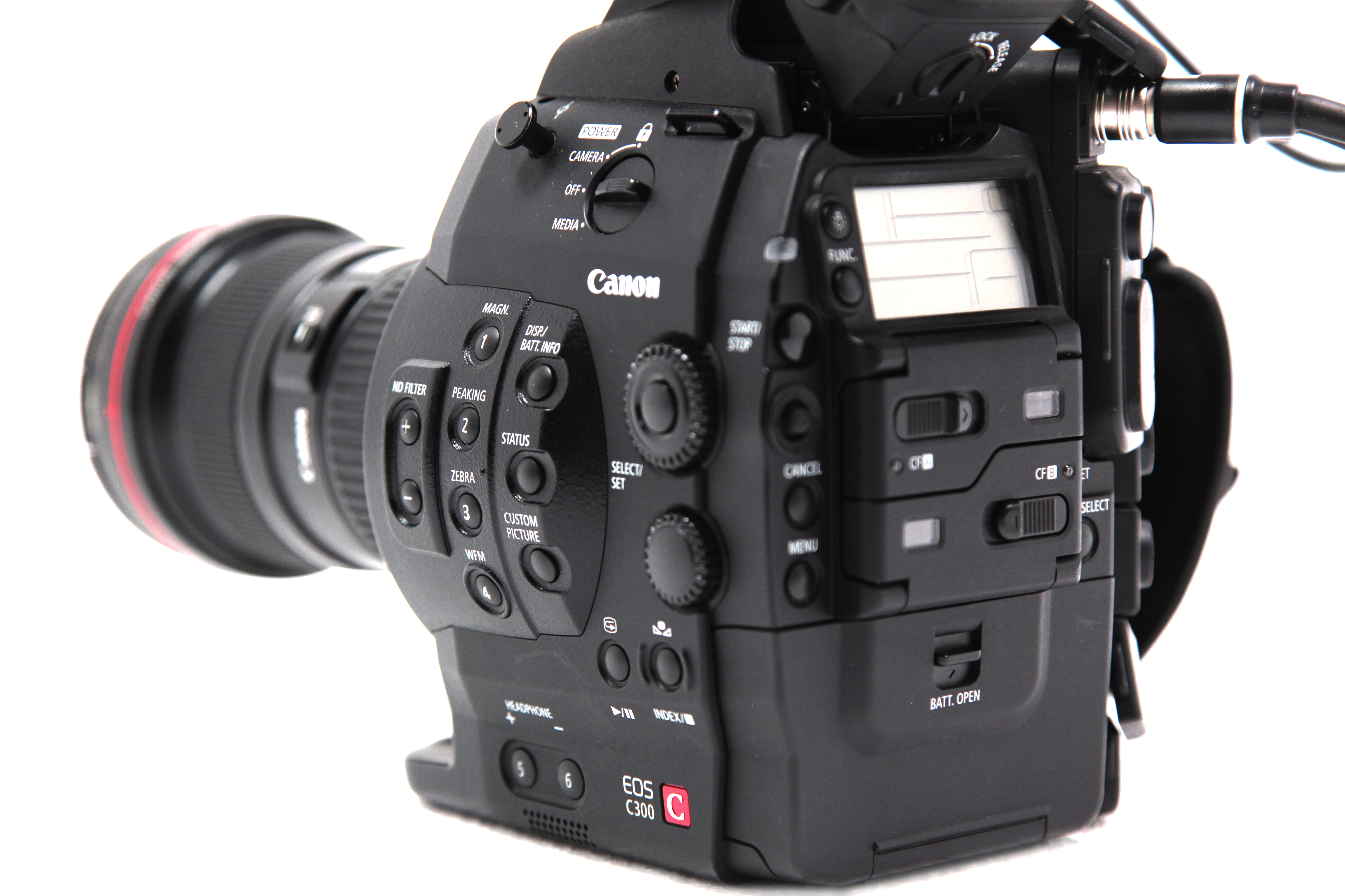 Canon EOS C300 Cinema EOS Camcorder (EF), 1920x1080 60/50i, 23.98/25p. Popular choice of most camera operators, used with Canon zoom or prime lenses. Equipped with two XLR inputs for audio and timecode is a step up from Canon 5D Mark III.